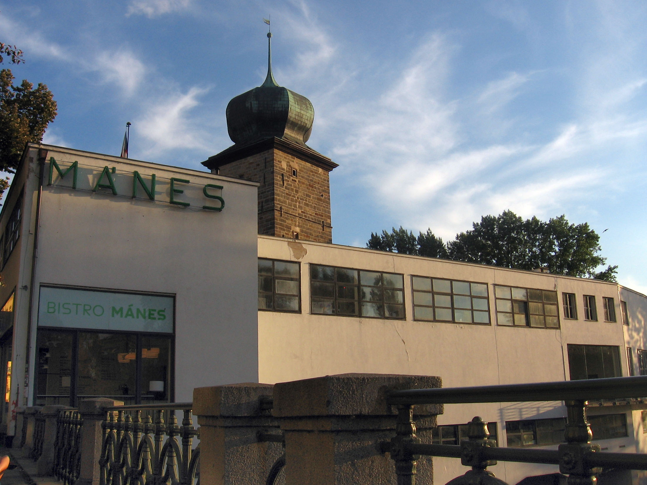 Manes, Prague